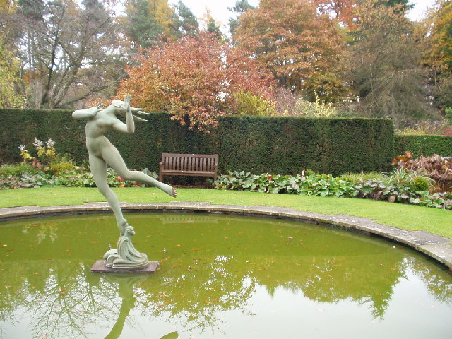 Greenbank Garden. The beautiful gardens of the National Trust for Scotland property on the south of Glasgow